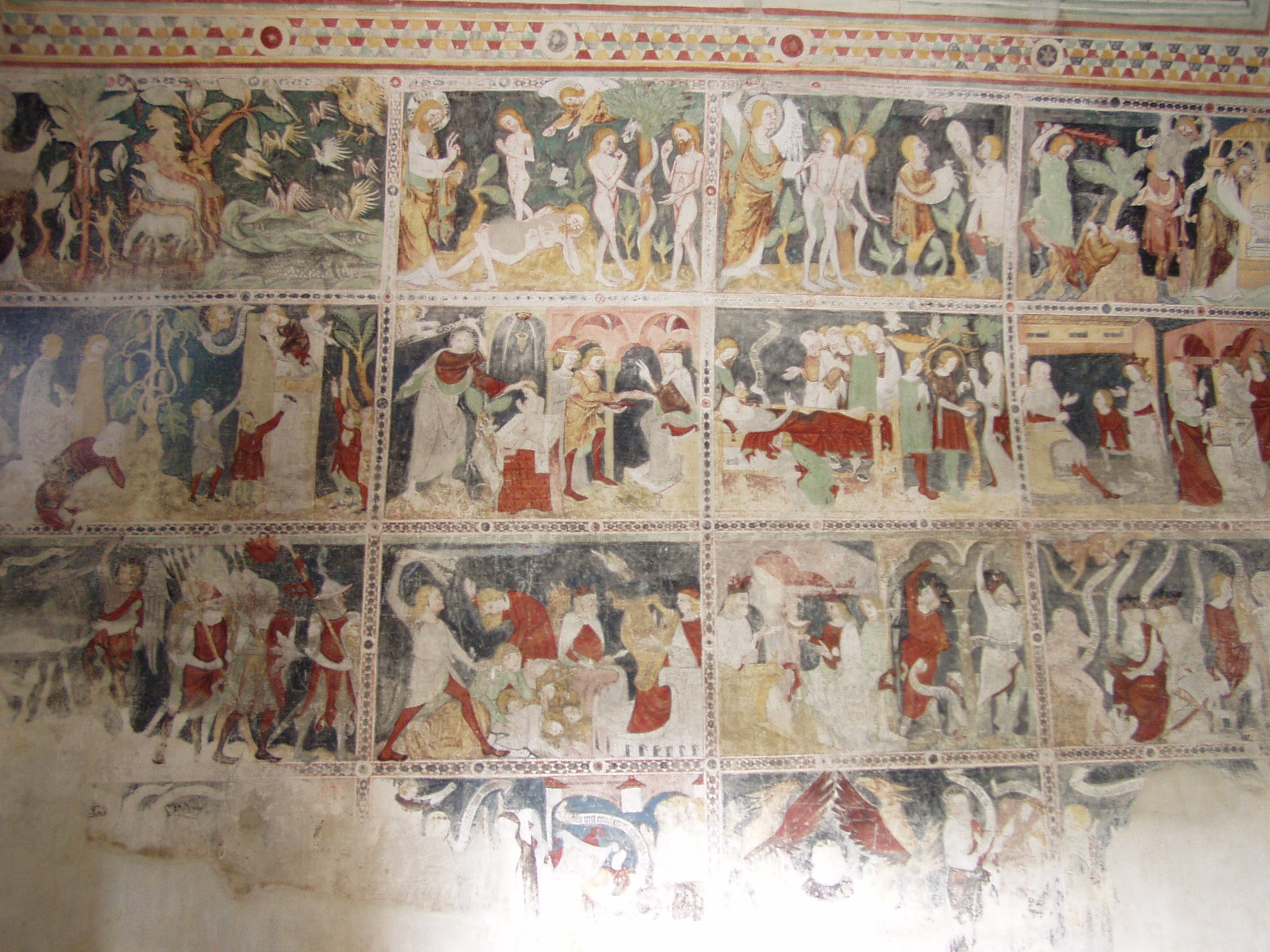 Cathedral of Gurk, outer entrance hall, fresco showing scenes of the Old Testament (1340)